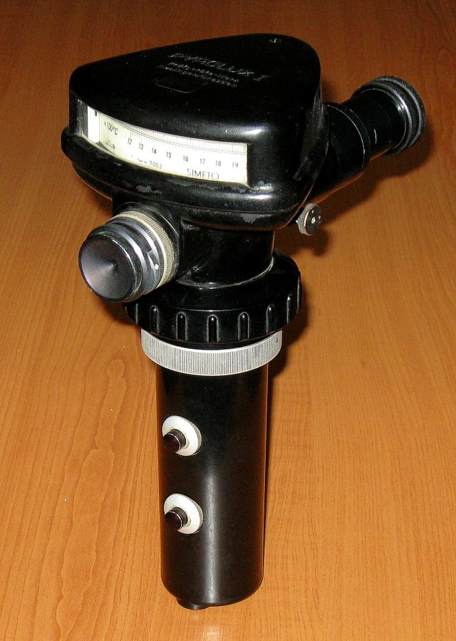 Disappearing-Filament Pyrometer "Pyrolux I", Prüfgeräte-Werk Medingen/Dresden.